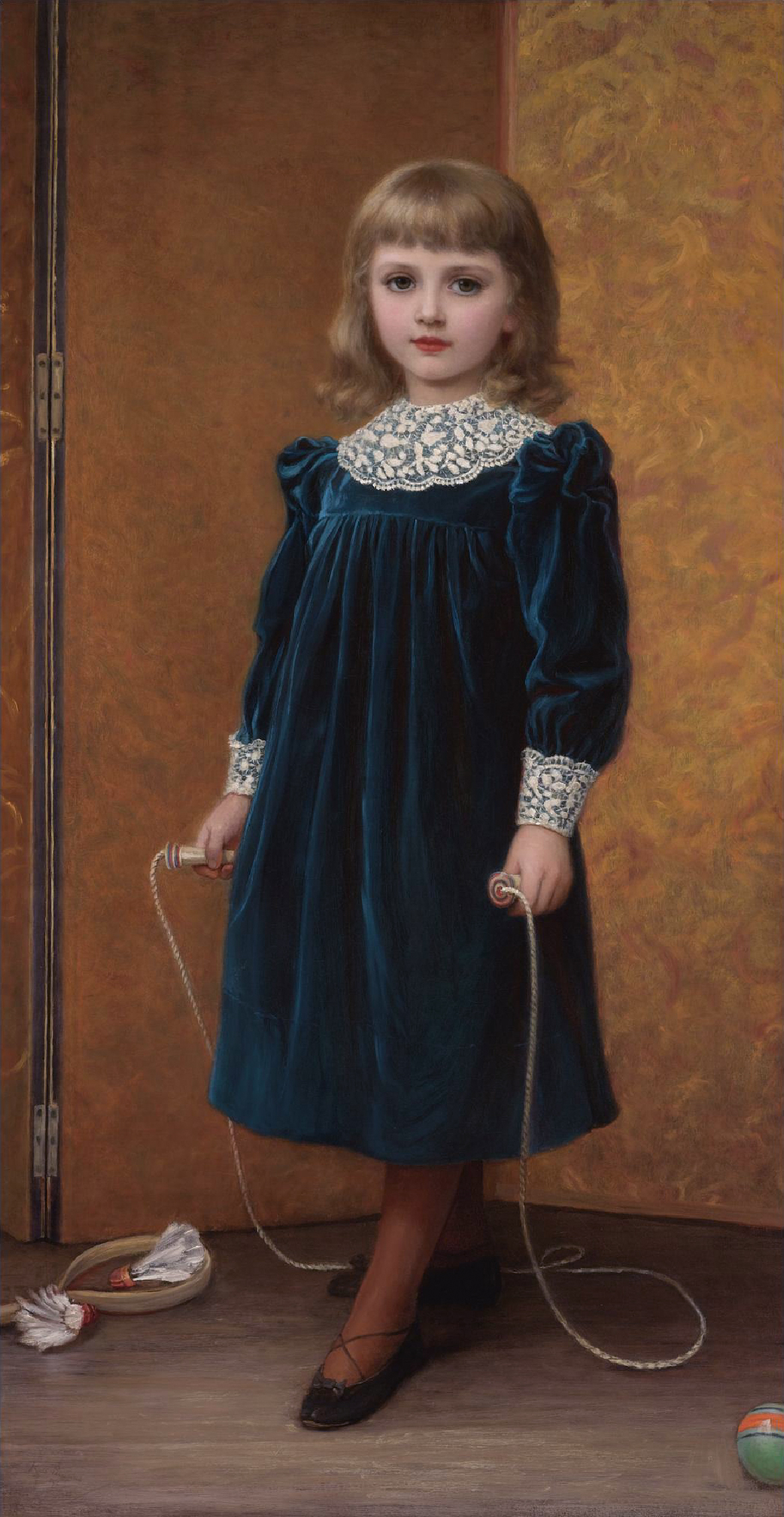 Dora oil on canvas 116.8 x 60.9 cm signed and dated l.l.: Kate Perugini 1892